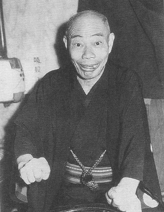 Shokaku Shōfukutei V